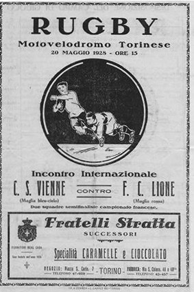 Program of Vienne — Lyon in Turin, an exhibition game between two rugby union French clubs to promote the game in Italy